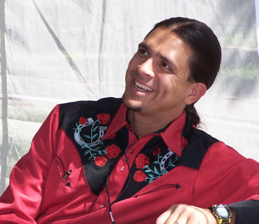 Stephen Graham Jones at the 2006 Texas Book Festival, Austin, Texas, United States.